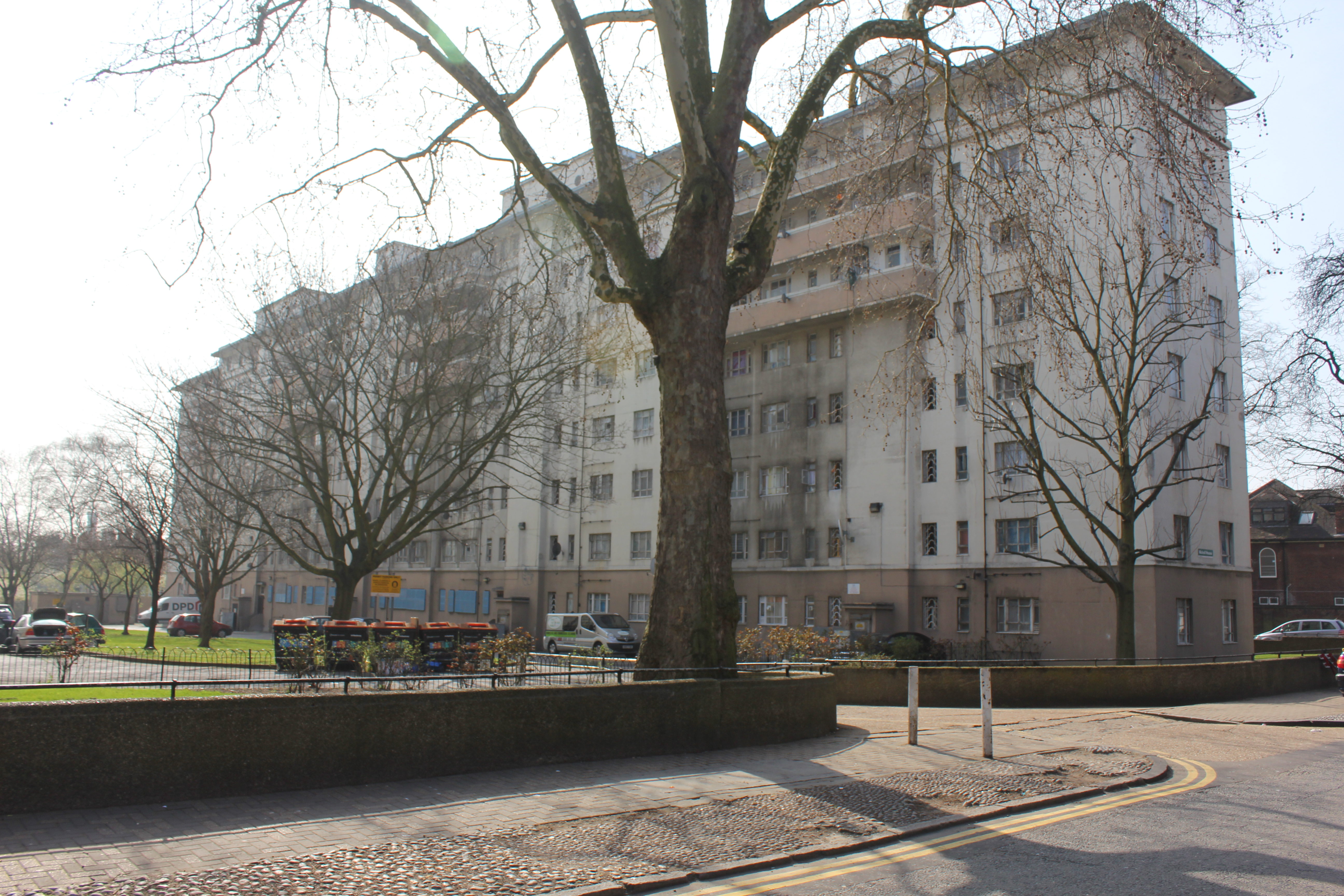 View of Nicholl House (council estate at Woodberry Down, Hackney, London) to be demolished in 2012, March 2012 The building featured in the Schindler's List film